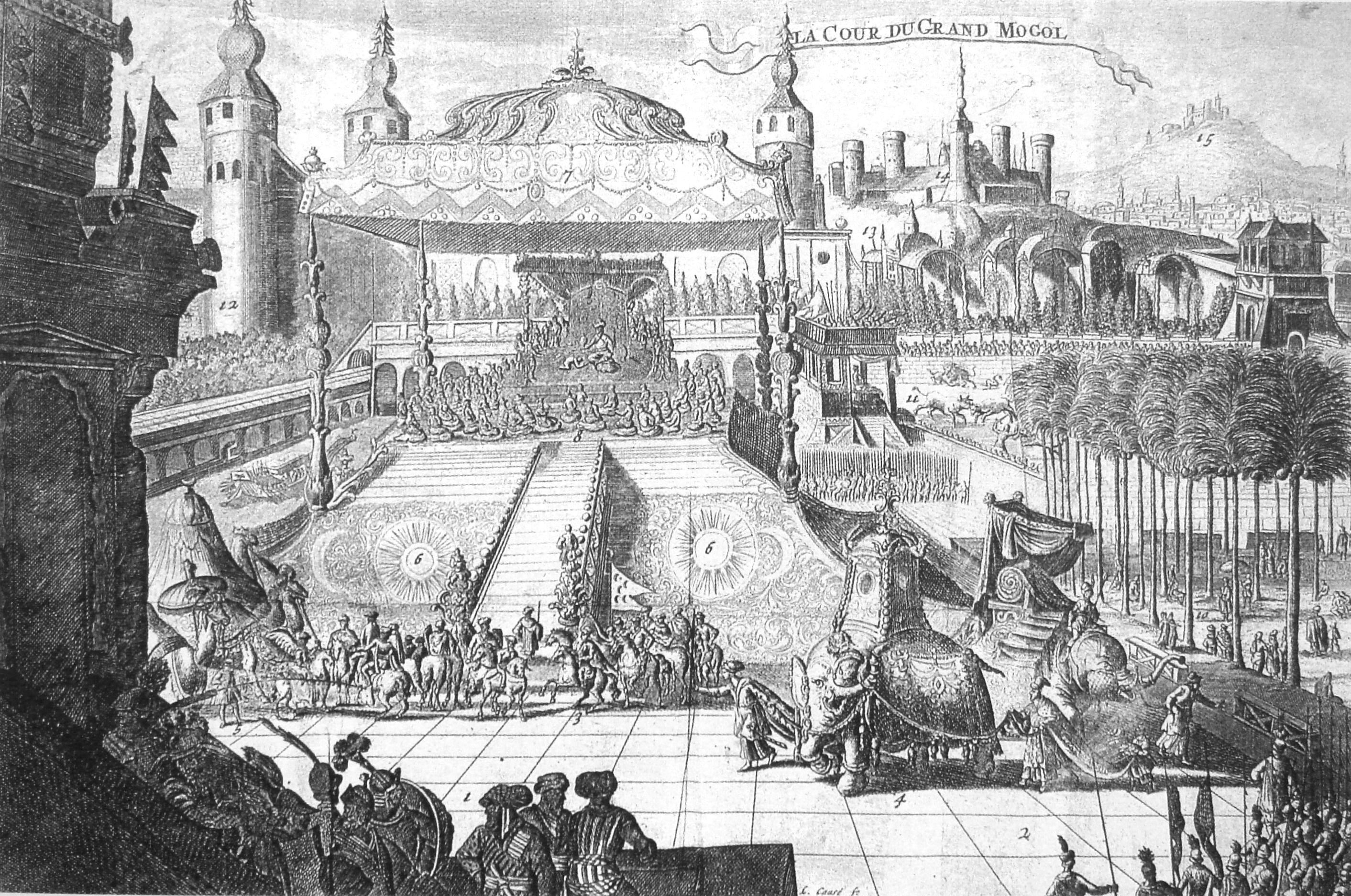 Voyage_de_Francois_Bernier_by Paul_Maret_1710